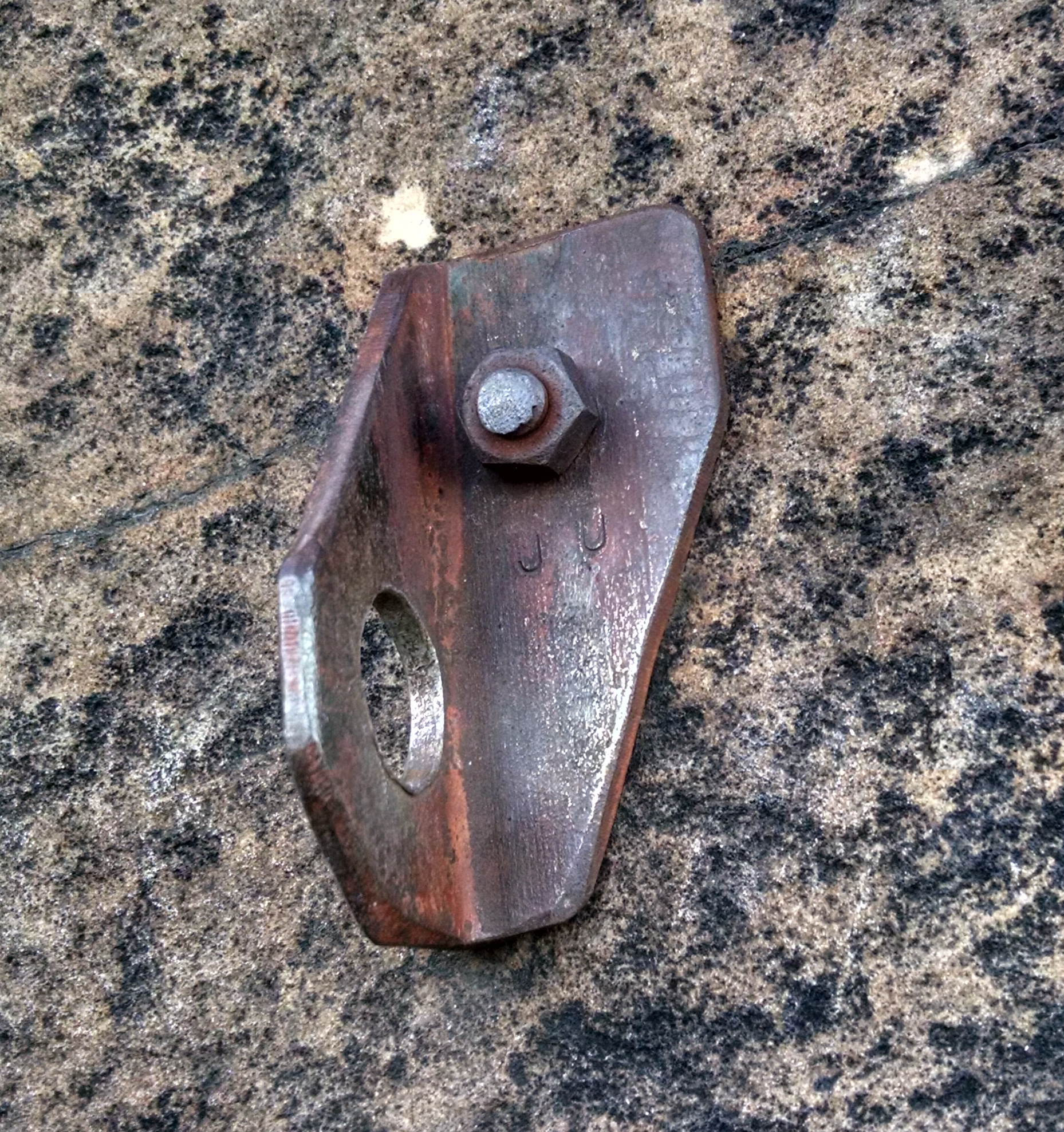 With "JU" etched on it, presumably for Jorge and/or Joanne Urioste. This was at the top of either the second or third pitch. Don't worry, there were new, shiny, bolts nearby, too.